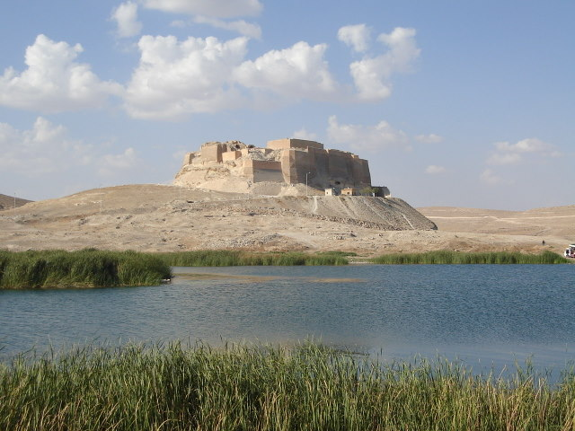 Qal'at Najm, once perched on a hilltop overlooking the Euphrates Valley but now on the shore of the Tishrin Dam reservoir. قلعة نجم: وهي قلعة عربية هامة تشرف على نهر الفرات على هضبة مرتفعة تتحكم بالطرق بين حوض الفرات وحلب وقد بنيت من الحجارة القرميدية وفق الطراز الأيوبي وتبعد عن مدينة حلب حوالي 118كم. عن مدينة منبج 30 كم قلعة صغيرة لكنها رائعة